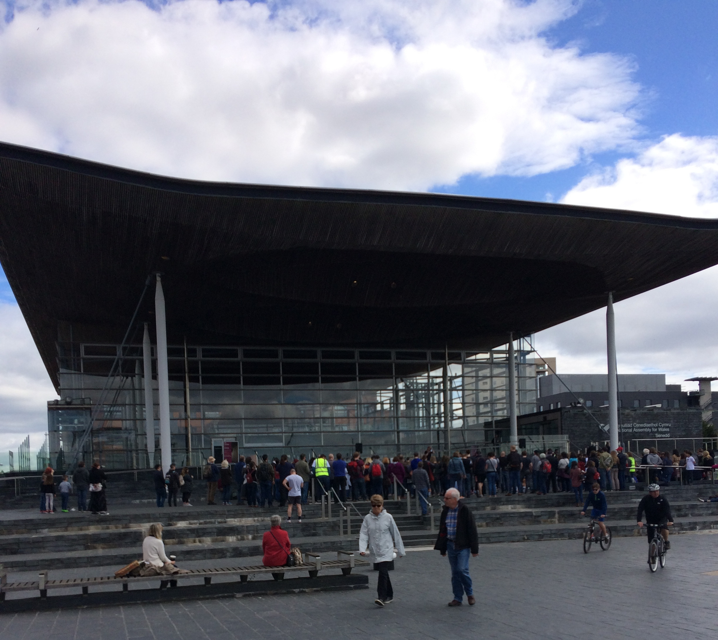 March for Science, 22 April 2017 on Earth Day. Crowd gathers outside the Senedd in Cardiff Bay to listen to key speakers.